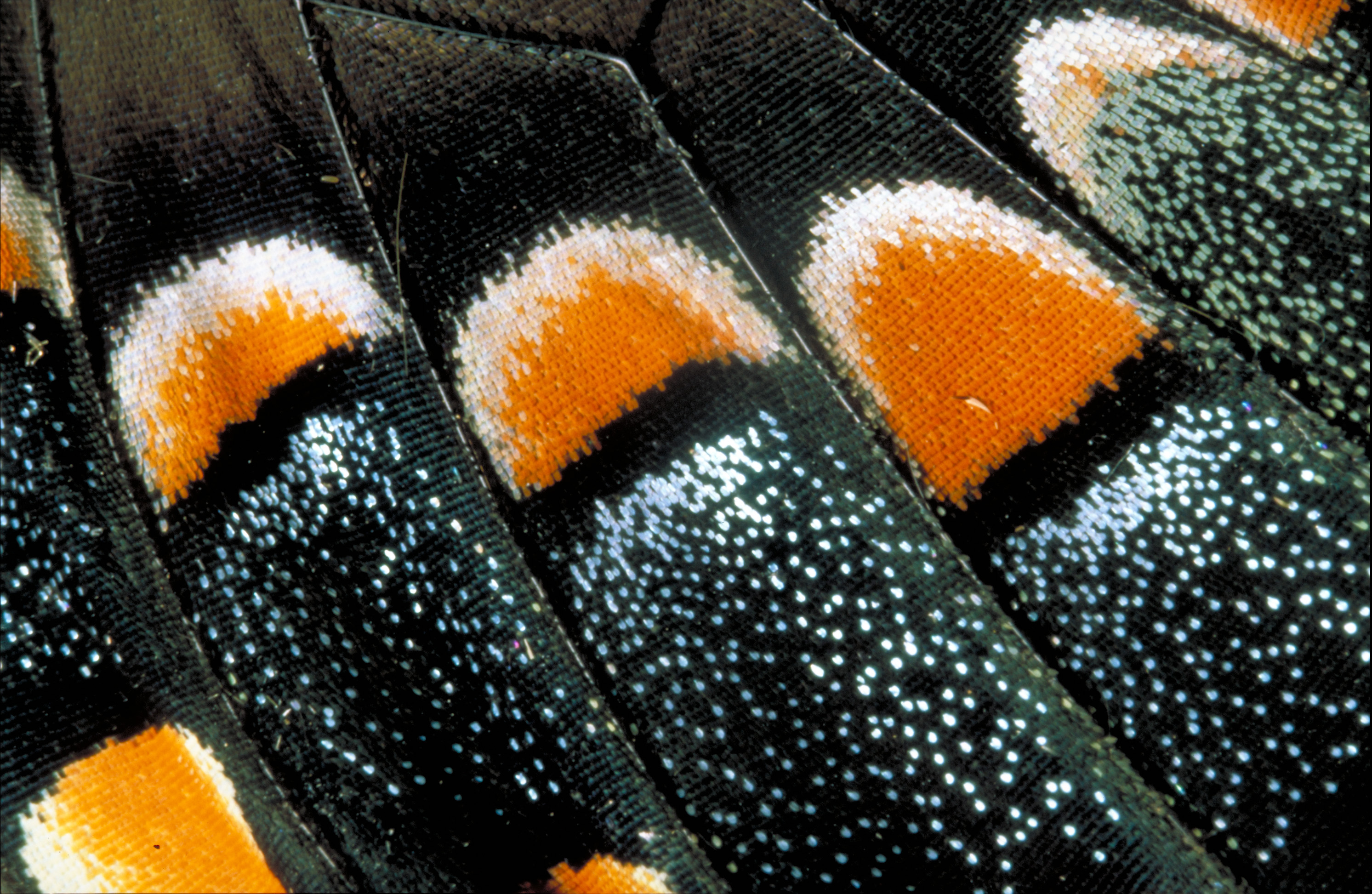 Photo: Dr. Thomas G. Barnes, USFWS